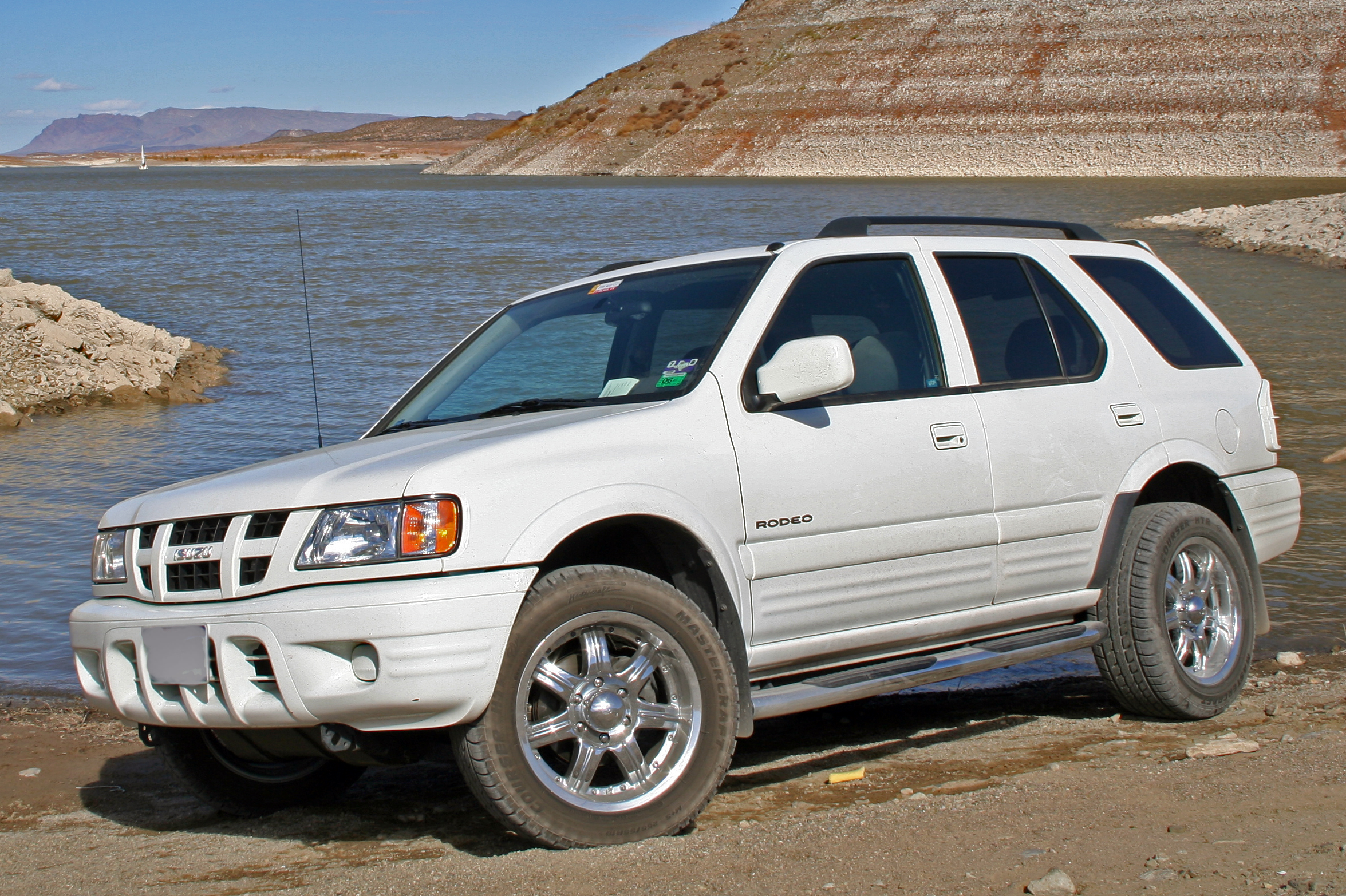 A white 2004 Isuzu Rodeo